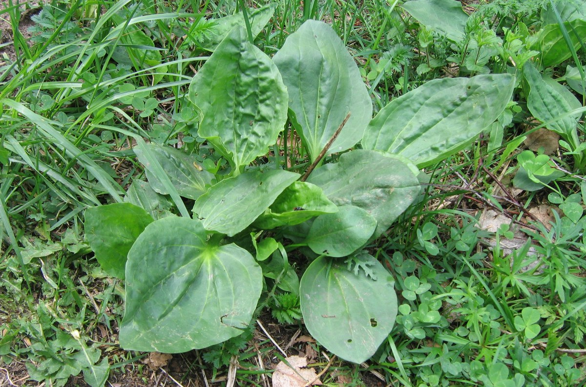 Greater Plantain Plantago major, Lithuania